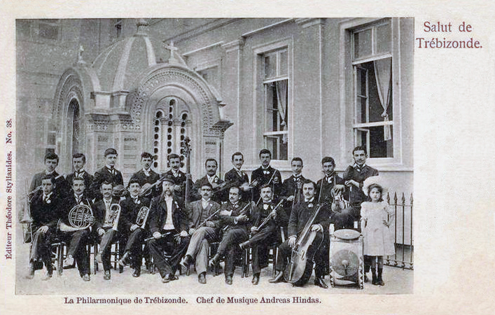 Postcard of the philharmonic orchestra of Trebizond (Trabzon, Turkey), around 1900.